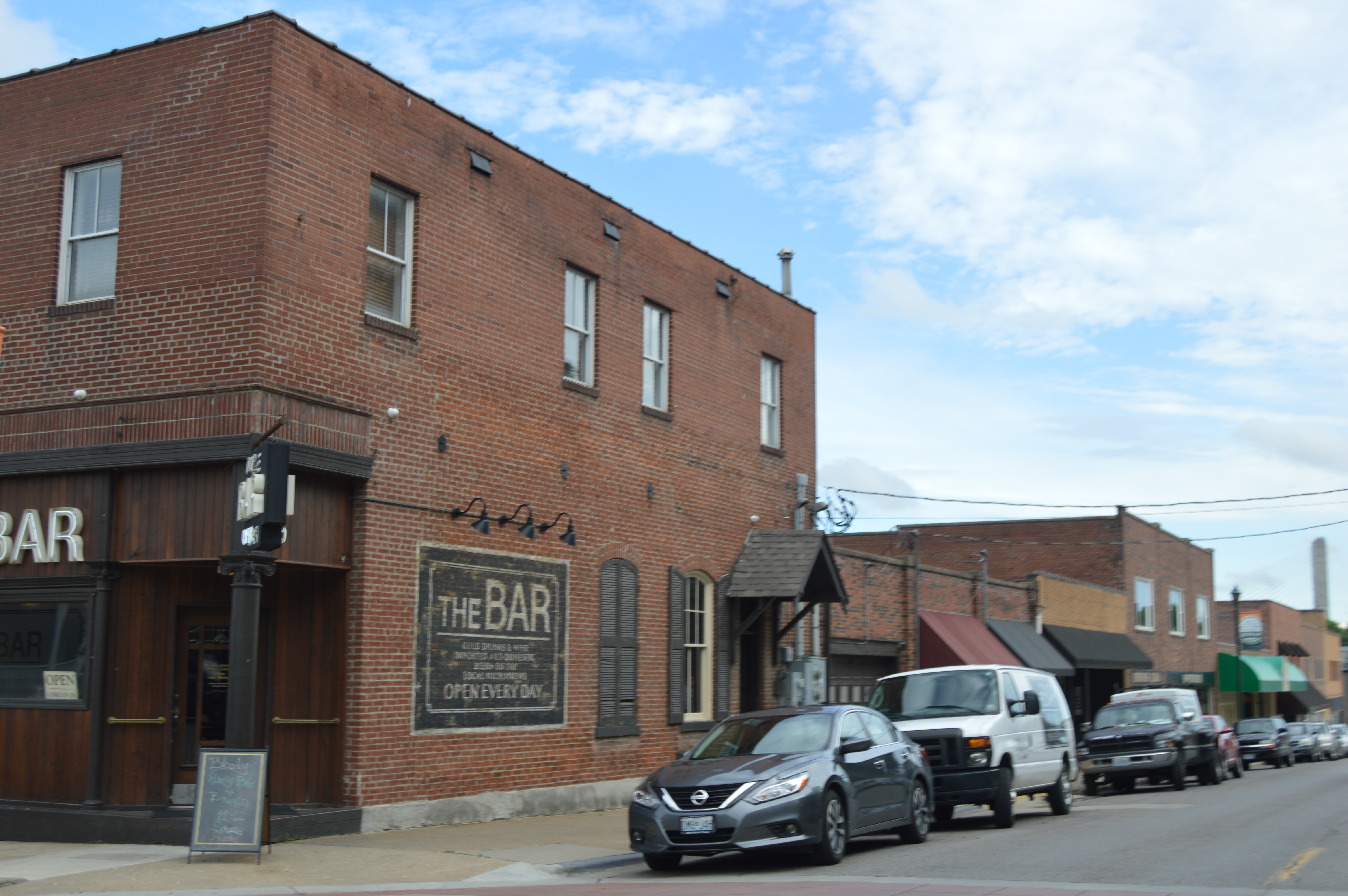 Buildings on the eastern side of Spanish Street south of the Themis Street intersection in Cape Girardeau, Missouri, United States. This block is part of the Main-Spanish Commercial Historic District, a historic district that is listed on the National Register of Historic Places.